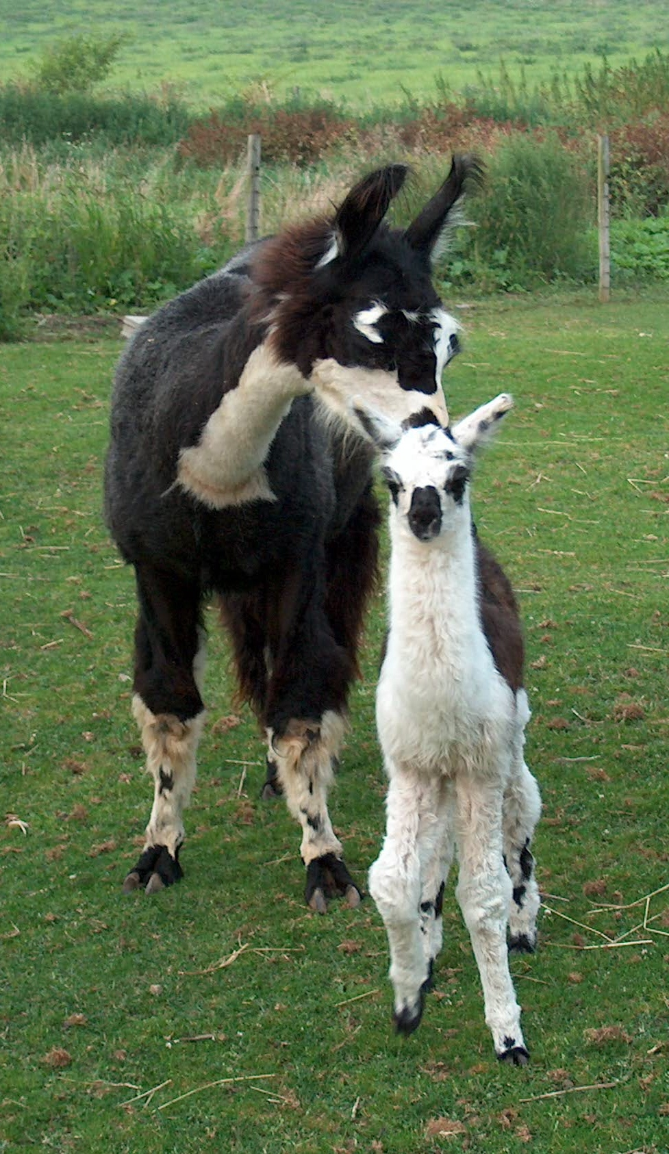 Author = Rick Boesen Source = taken by me 8/04